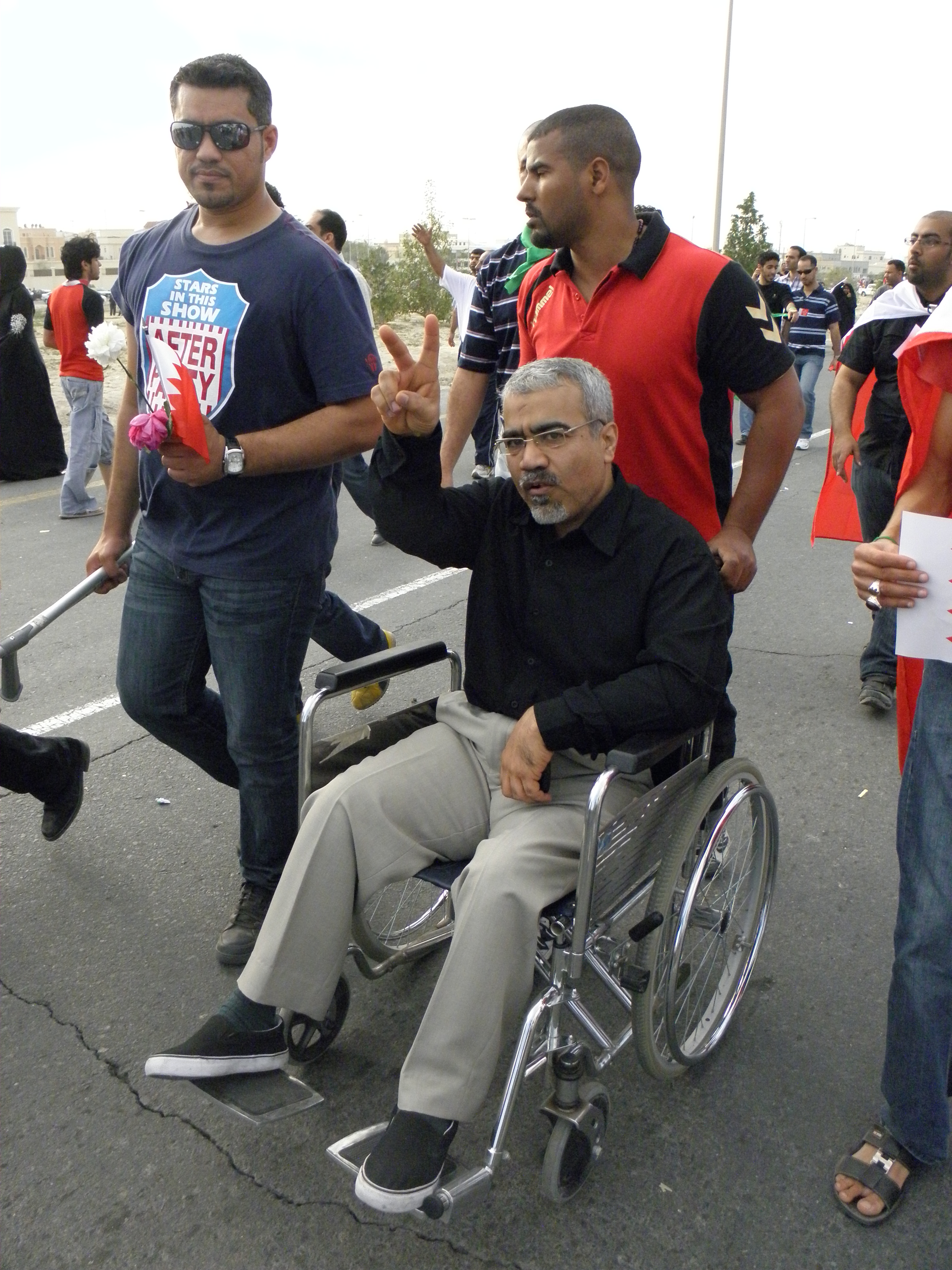 Abduljalil al-Singace taking part in March of royal court in Riffa